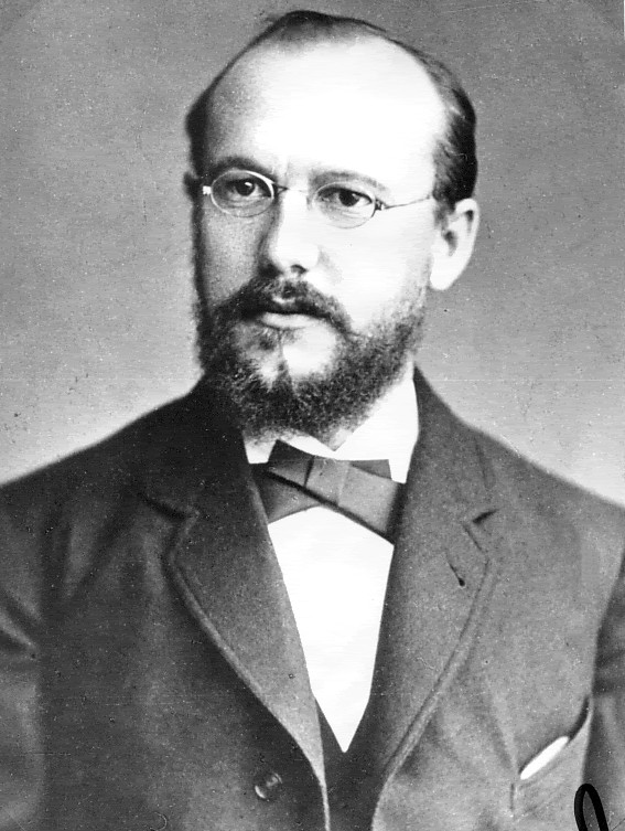 Karl Matthias Friedrich Magnus Kraepelin (1848-1915), German entomologist